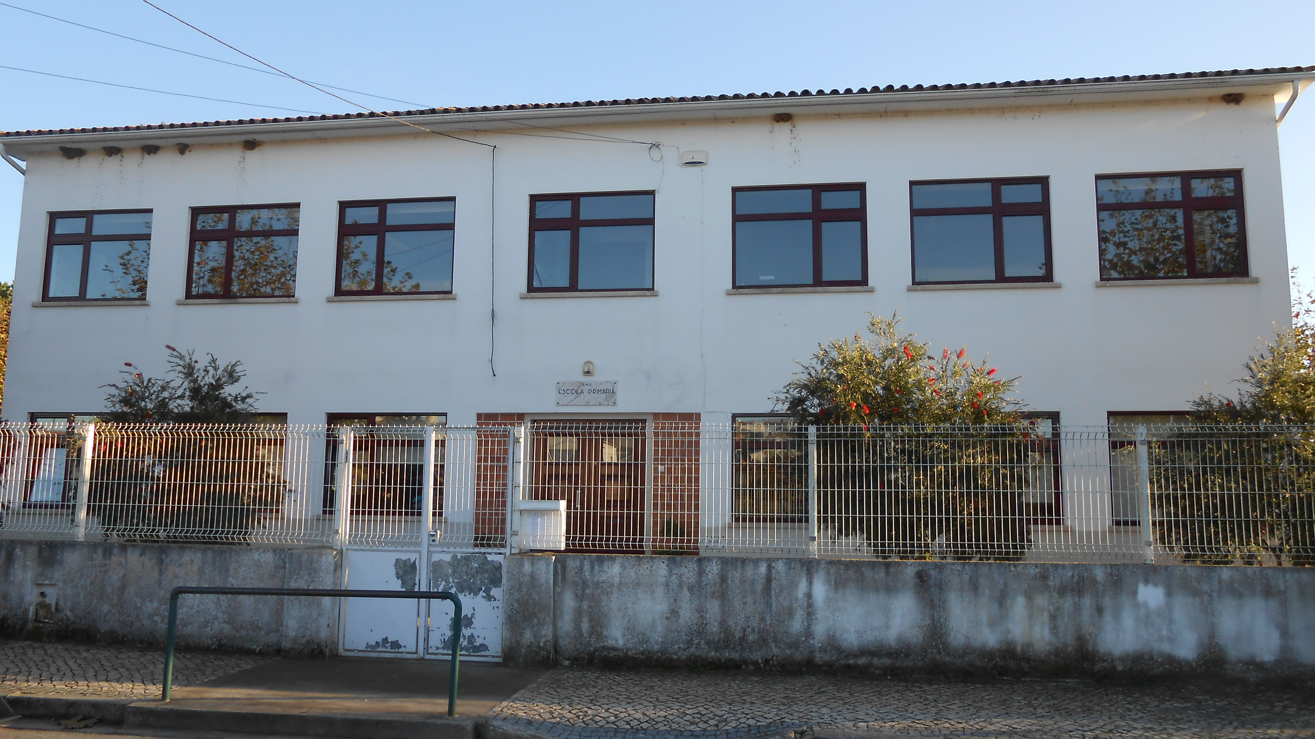 The elementary school in Vila Nova de Anços.